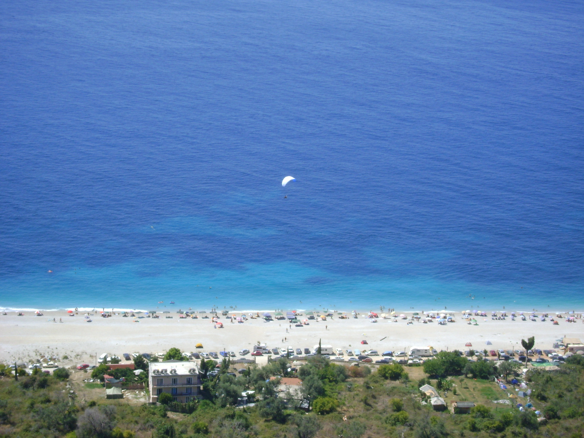 A view of the Beach of Dhërmi, Albania.